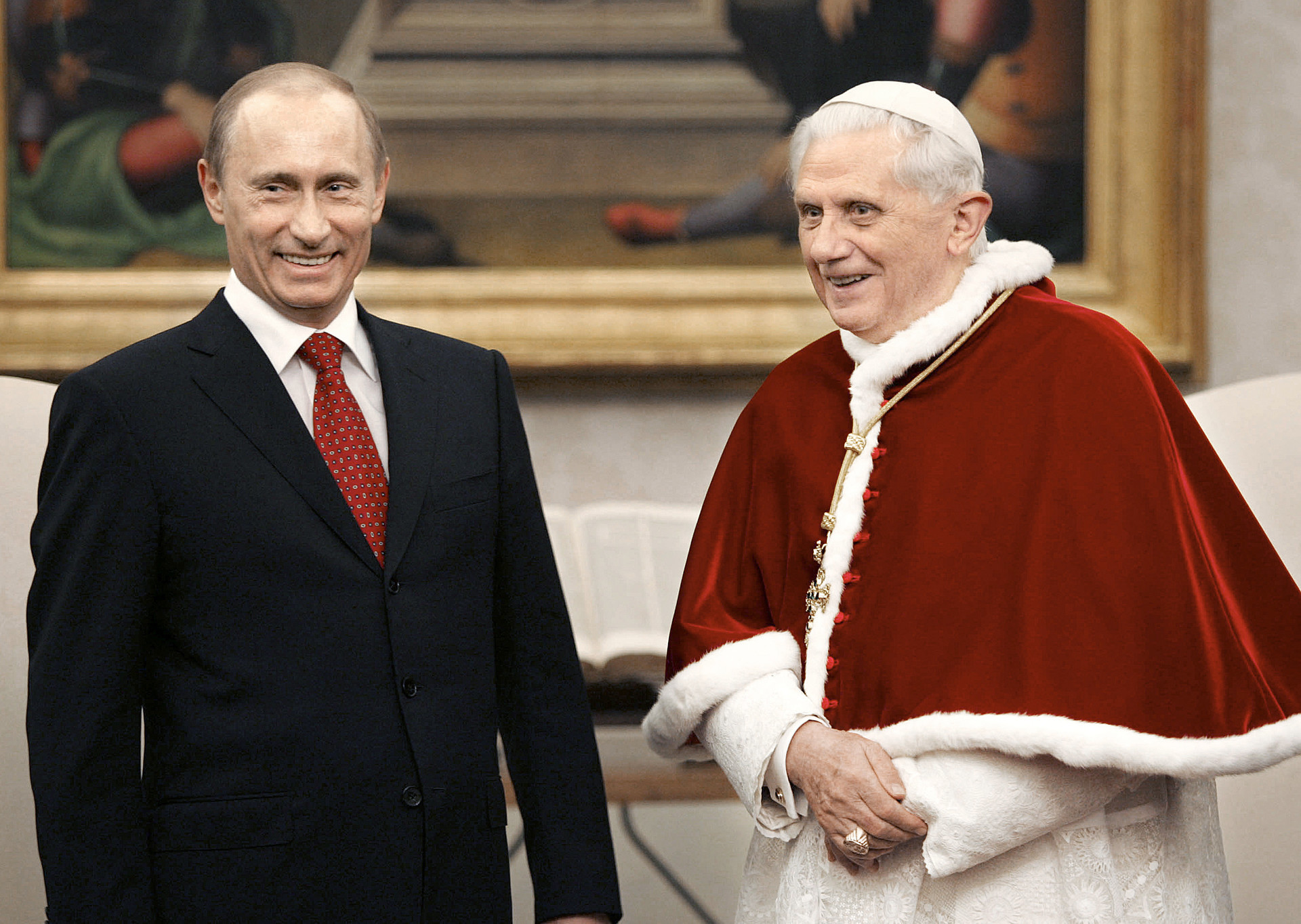 VATICAN. With Pope Benedict XVI.